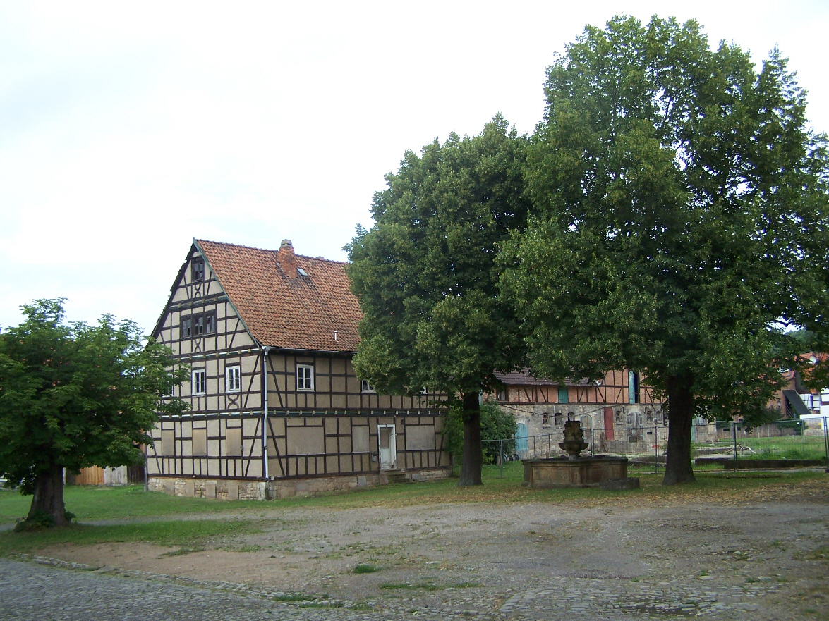 Stedtfeld, lower castle outbuildings and a fountaine in the inner courtyard.